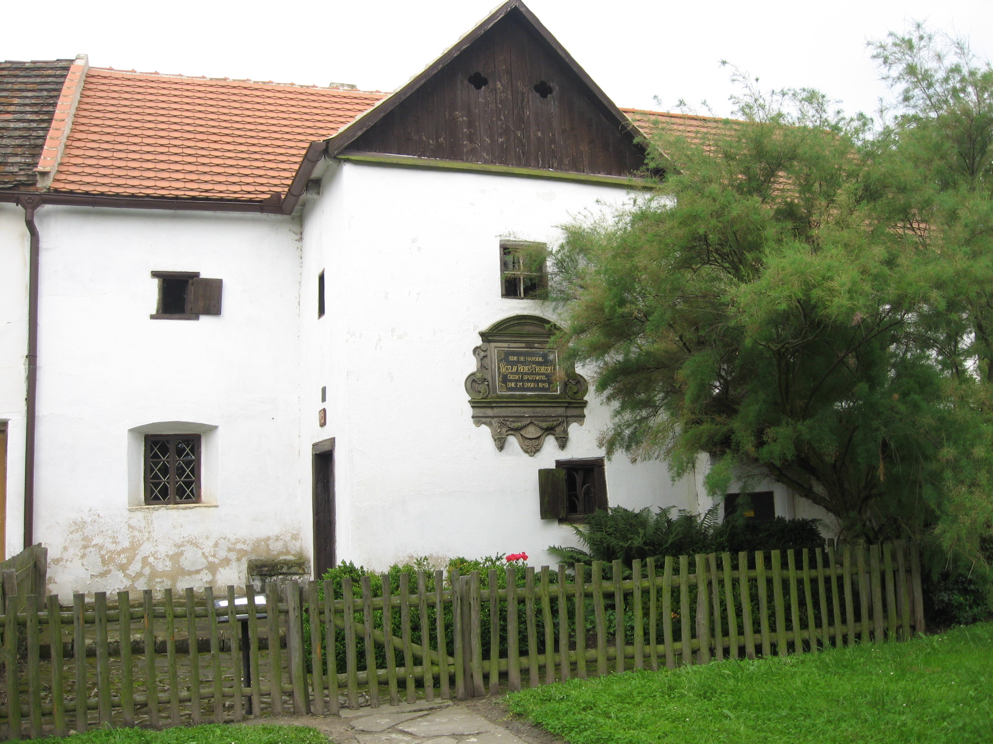 House (birthplace) of the Czech novelist Václav Beneš Třebízský in Třebíz, Kladno District, Czech Republic